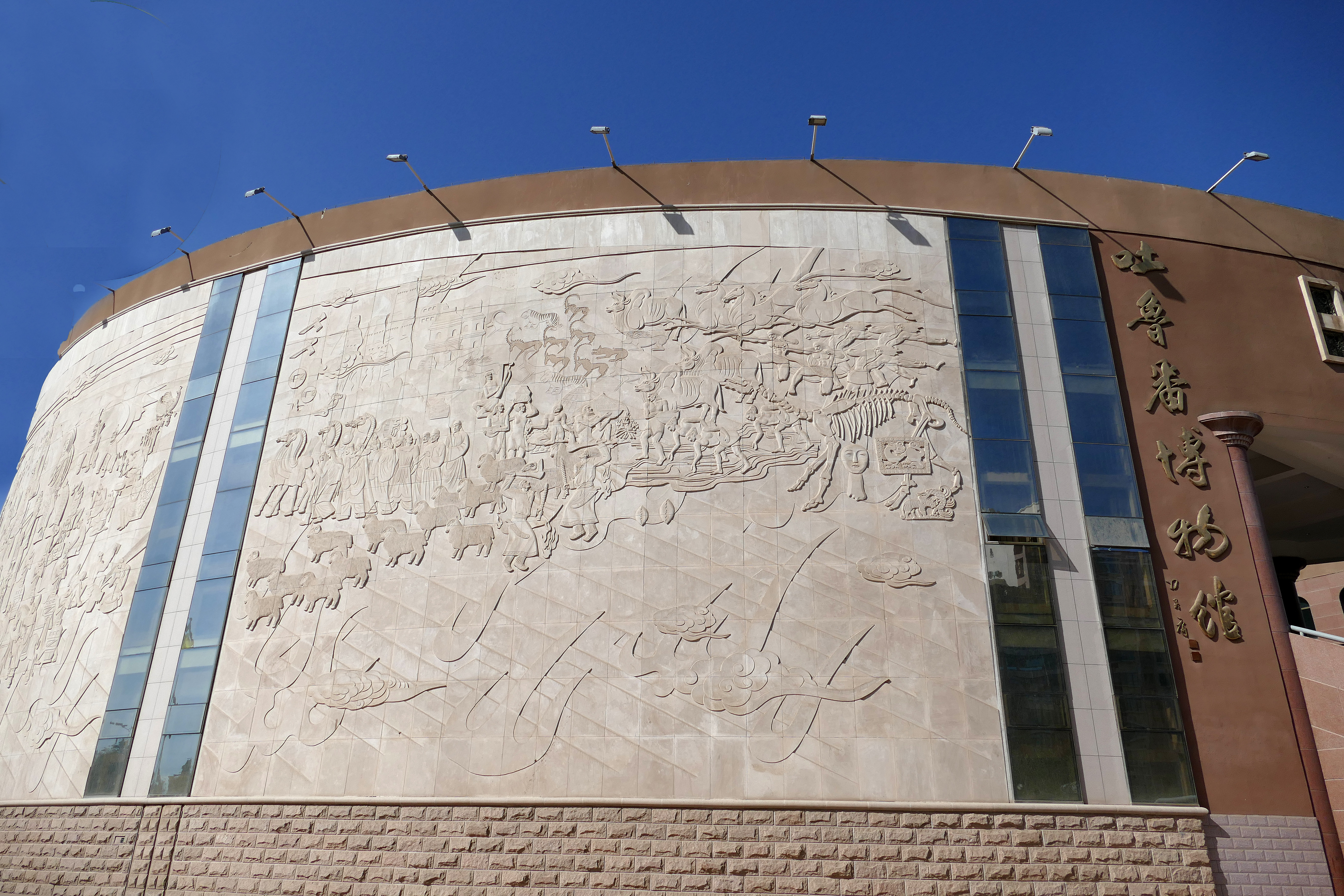 Turpan-Museum